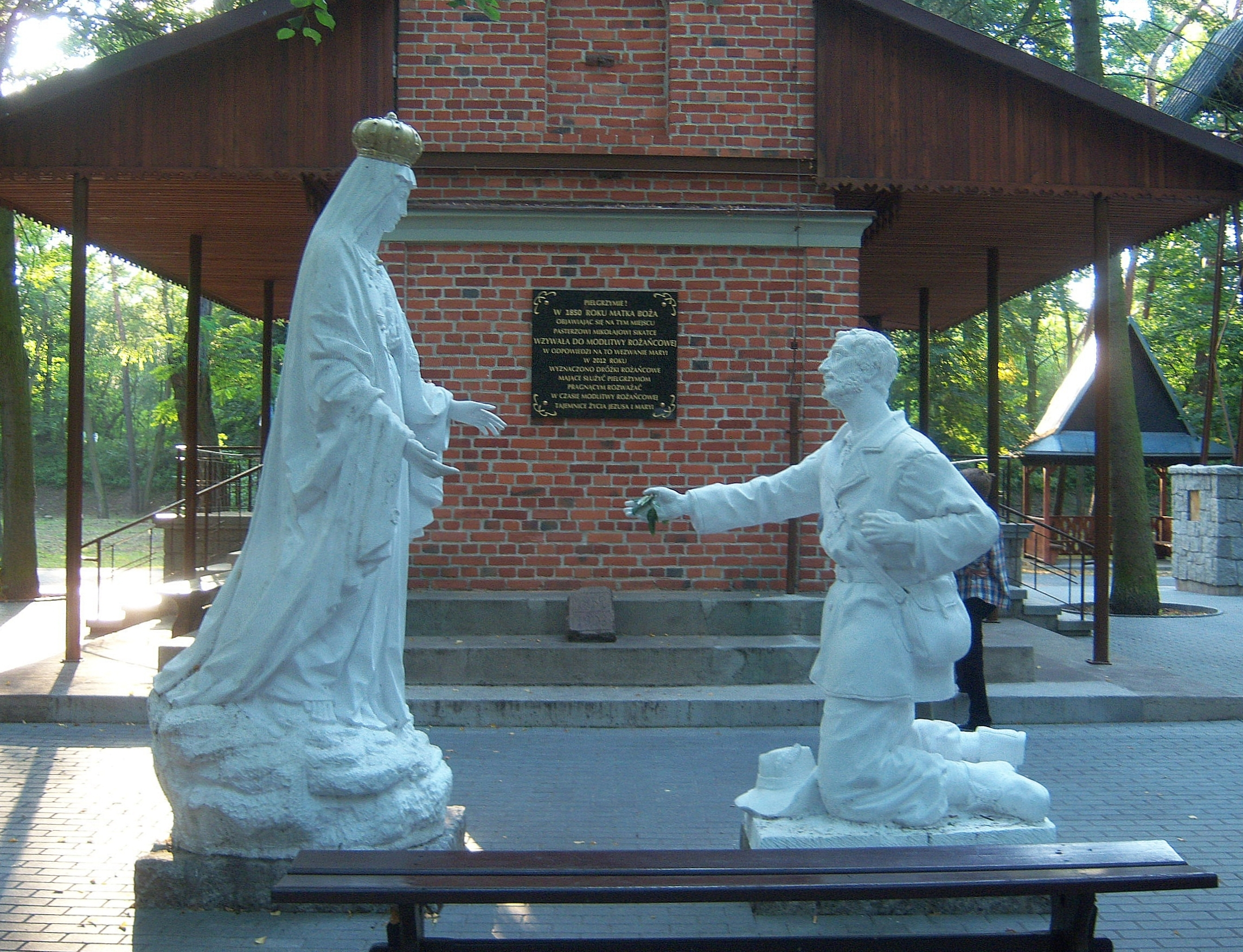 Sculptures: Maria - Our Lady and Mikołaj Sikatka